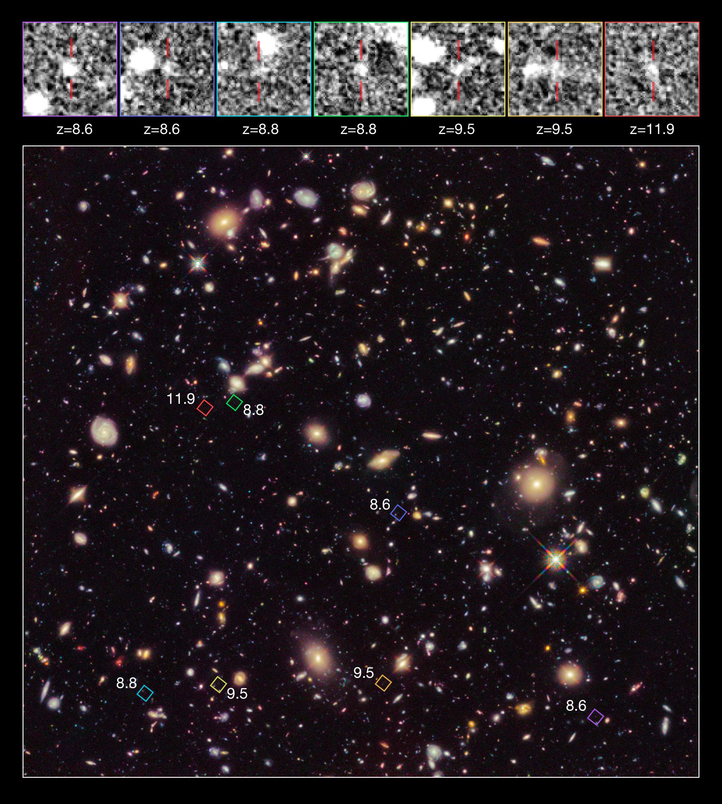 This image shows the Hubble Ultra Deep Field 2012, an improved version of the Hubble Ultra Deep Field image featuring additional observation time. The new data have revealed for the first time a population of distant galaxies at redshifts between 9 and 12, including the most distant object observed to date. These galaxies are shown at the top of the picture, and their locations are pinpointed in the main image. These galaxies will require confirmation using spectroscopy by the forthcoming NASA/ESA/CSA James Webb Space Telescope before they are considered to be fully confirmed.